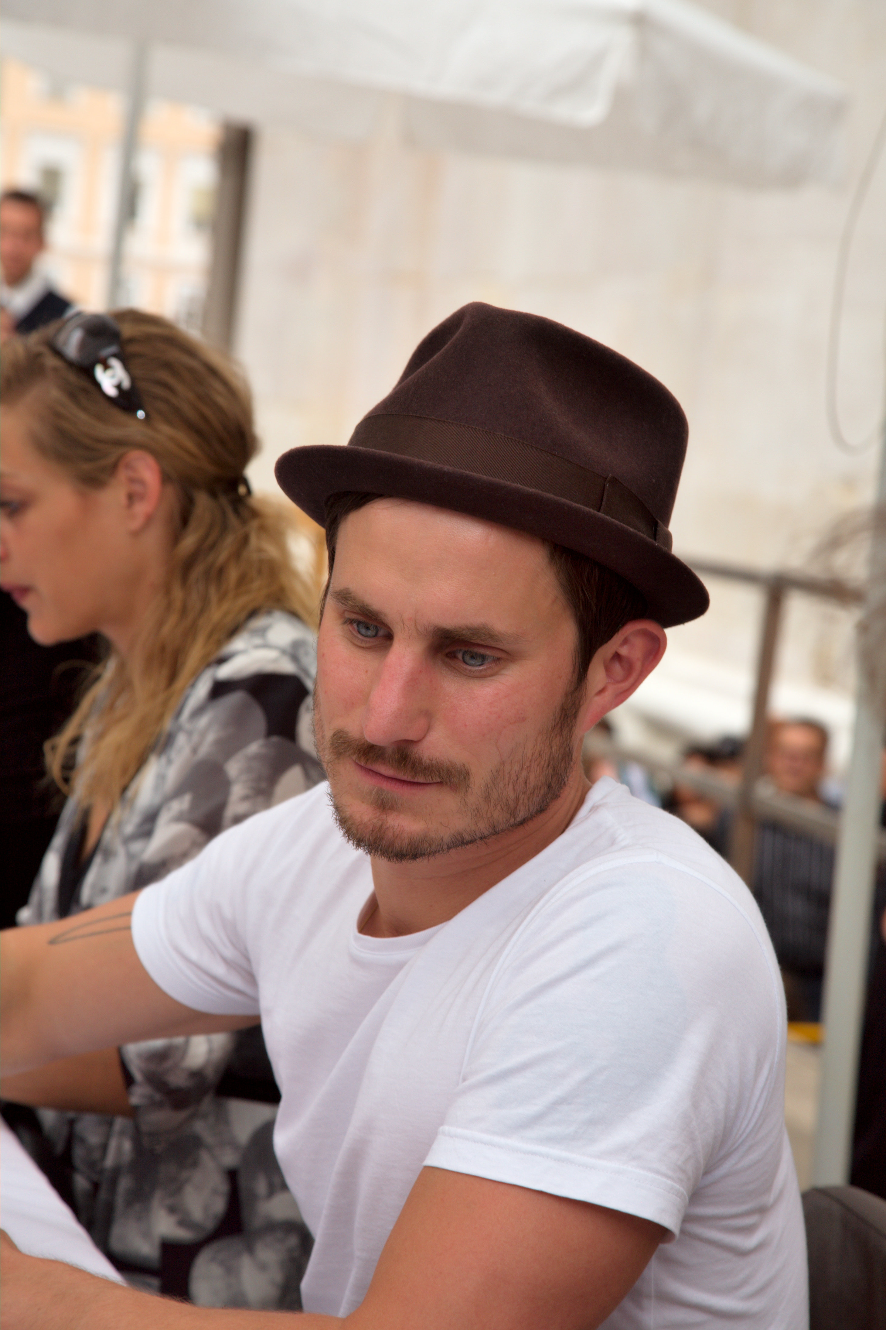 German actor Clemens Schick.